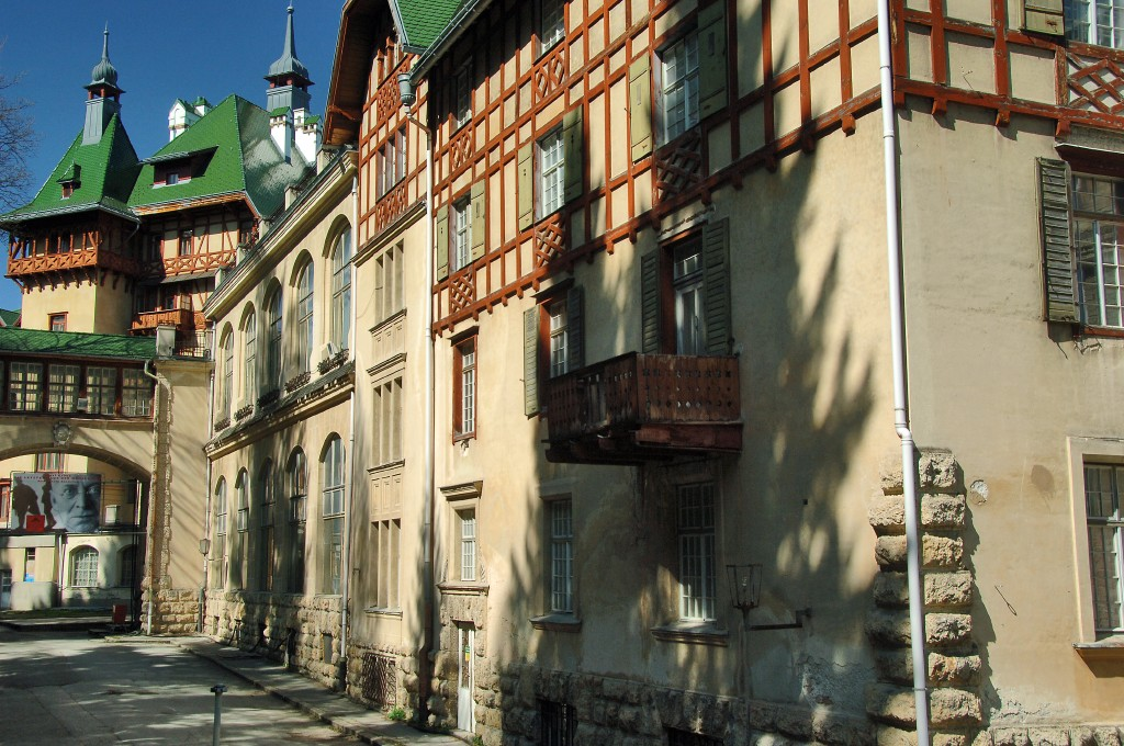 Südbahnhotel Semmering, selfmade photograph from April 15 2007.